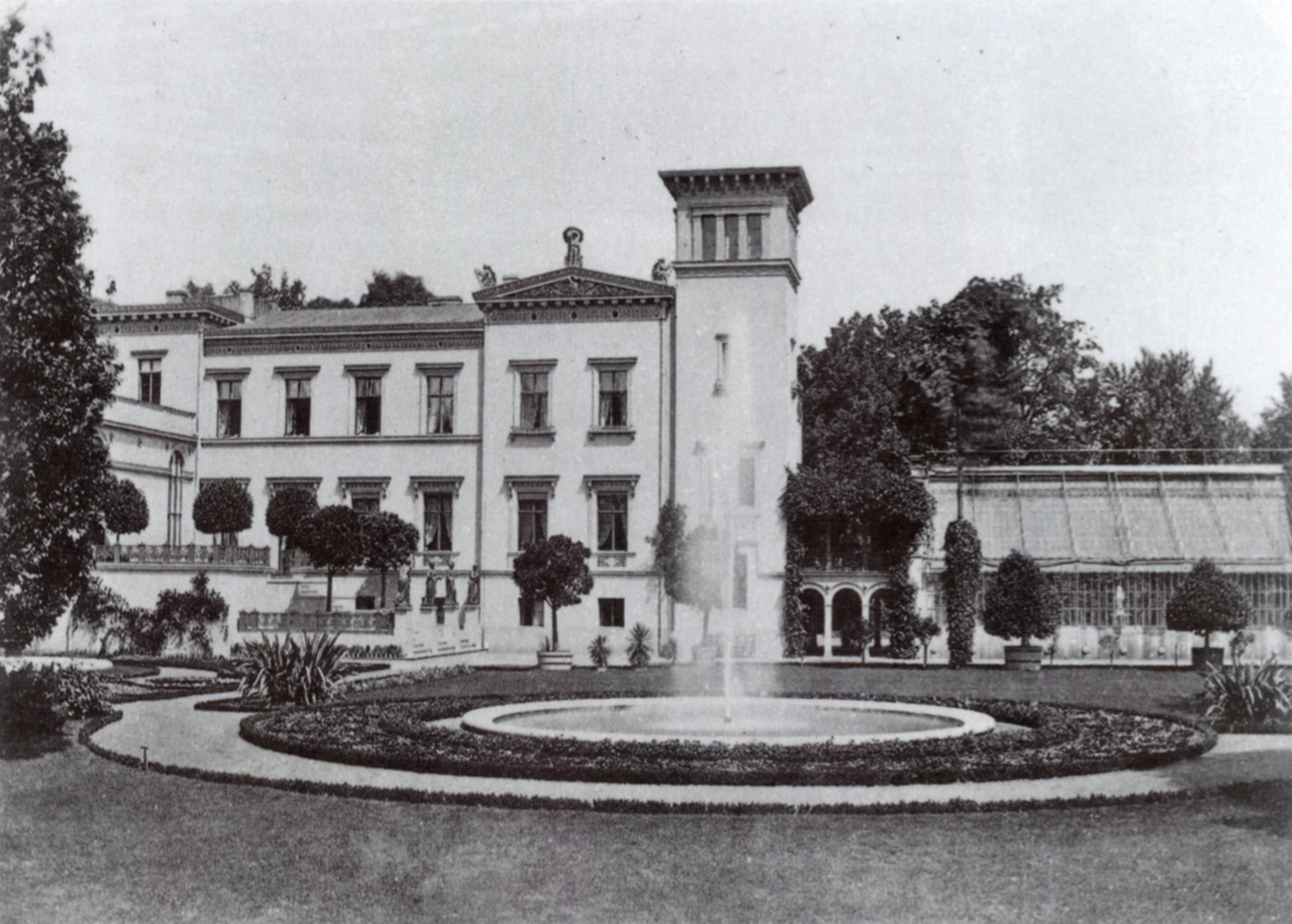 Berlin - Villa Borsig in Moabit, before 1867